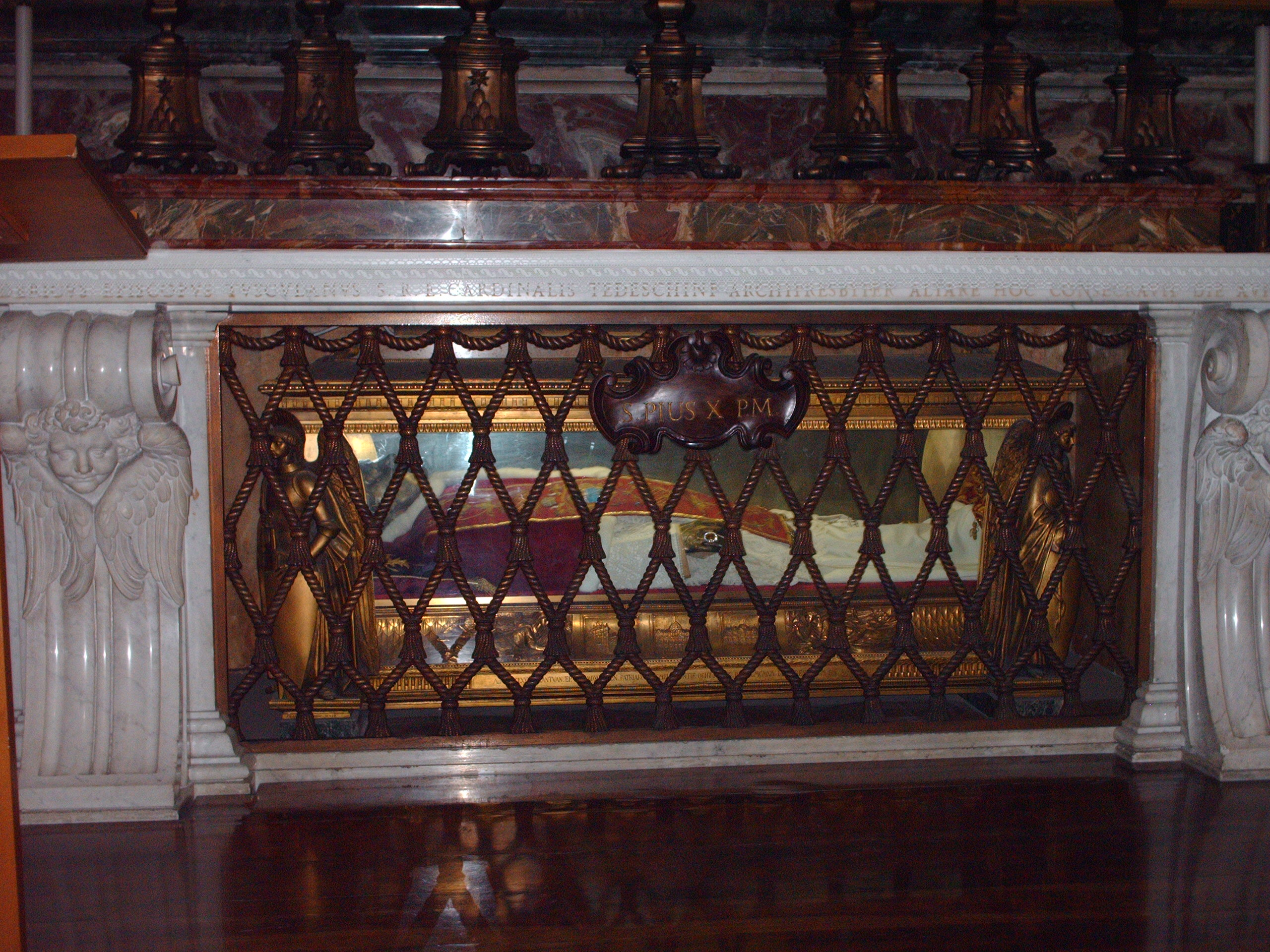 Tomb of pope Pius X, Basilica di San Pietro